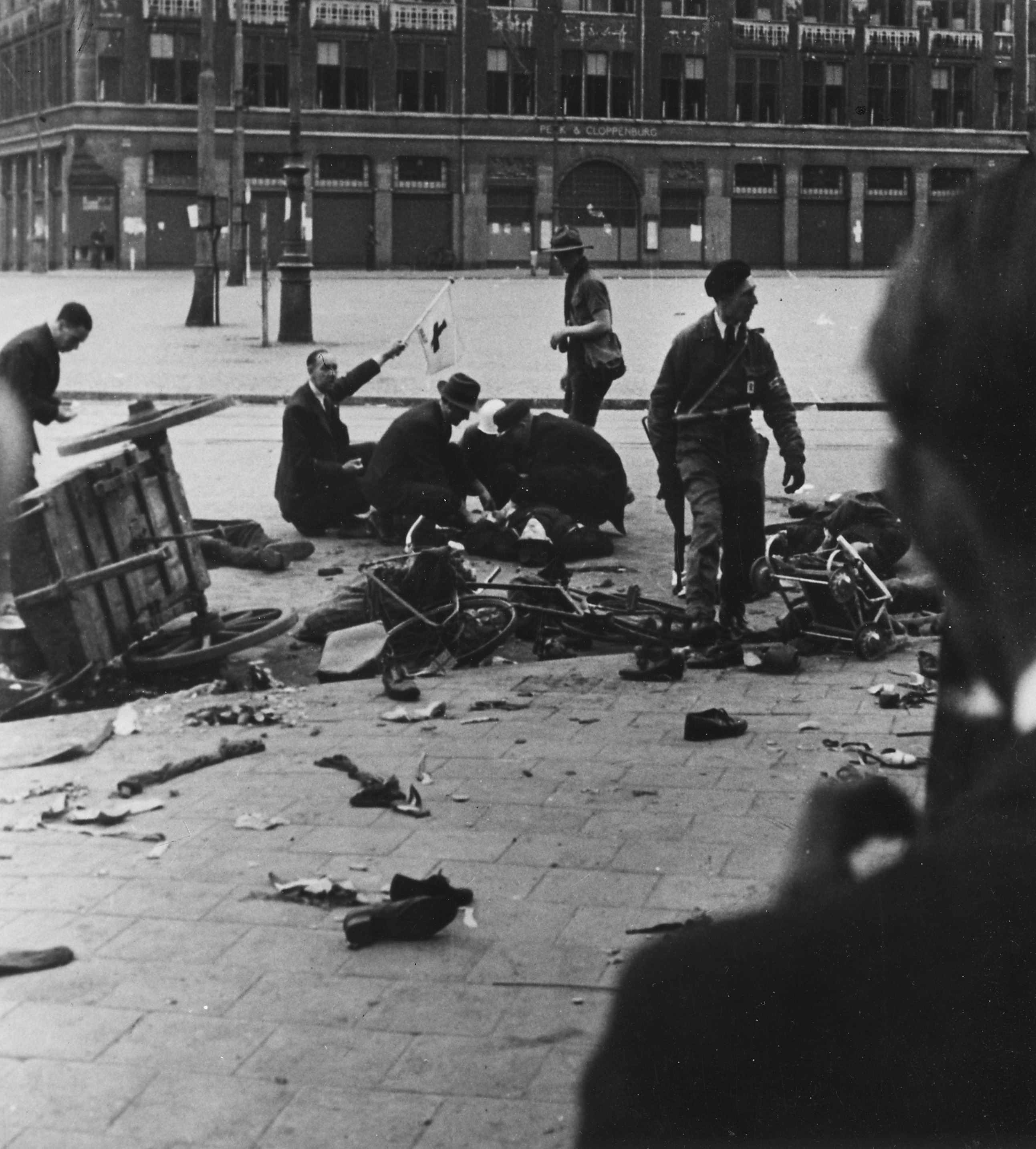 Netherlands. [Injured persons on a city street.] German military started shooting into crowds on Dam Square; more than twenty people were killed.